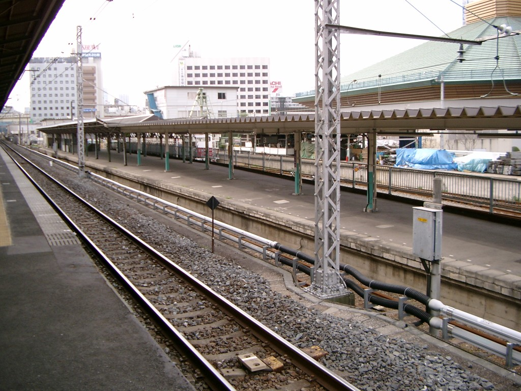 Platform No. 3 of Ryōgoku Station